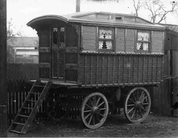 Taken in or around Beverley, East Yorkshire in the early 20th century by an unknown professional photographer. (Why not try searching our East Riding of Yorkshire Map for more historic images? ) (Copyright) We're happy for you to share this digital image within the spirit of Creative Commons. Please cite ' ' when reusing. Certain restrictions on high quality reproductions and commercial use of the original physical version apply. If unsure please